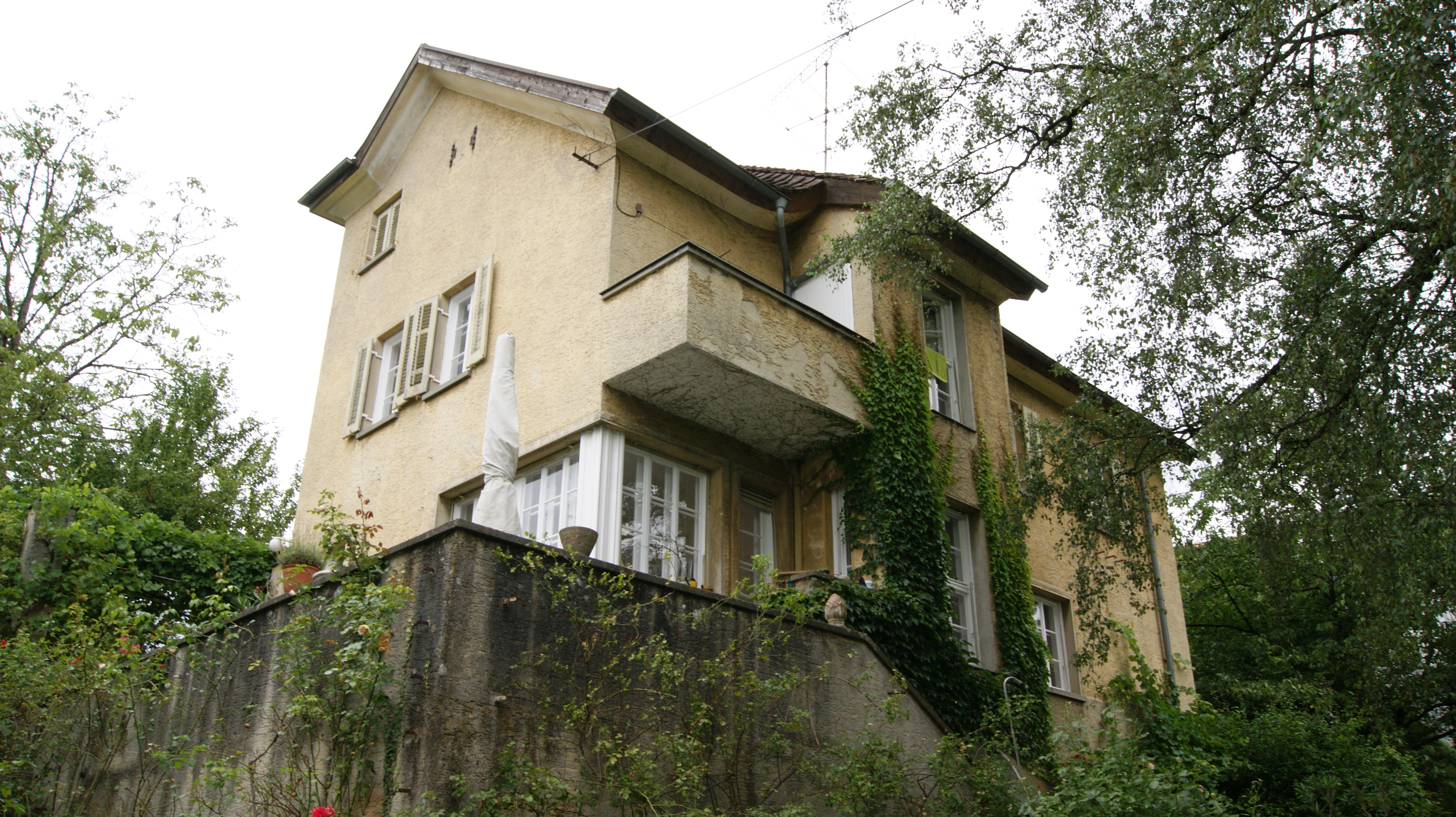 Pater-Grimm-Weg No. 16 in Feldkirch (Vorarlberg, Austria). Built according to plans by architect Alfons Fritz 1929/1930. Largely in original condition. View from South-West